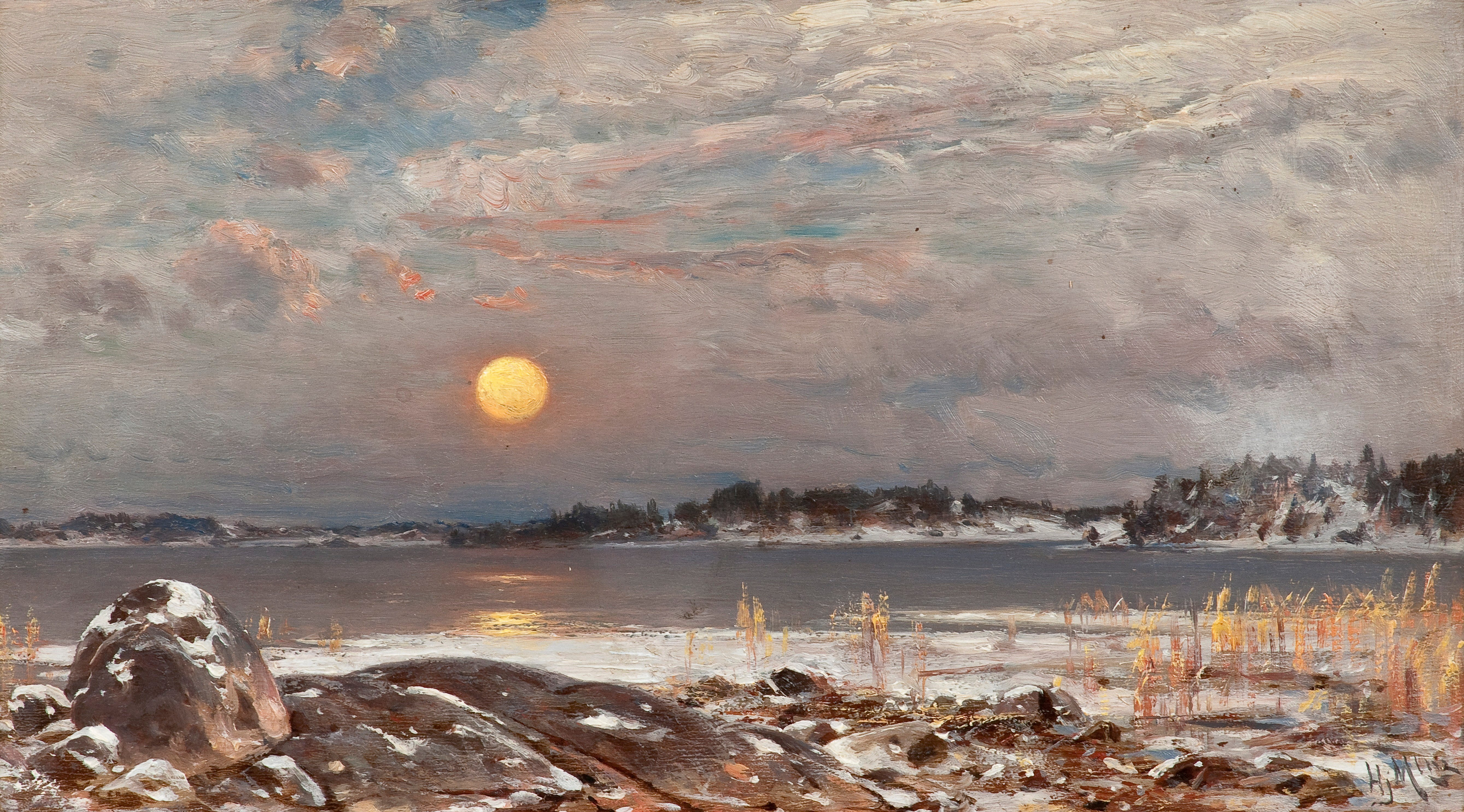 MUNSTERHJELM, Hjalmar (1840-1905) Early Spring Moon Vårvintermåne. Kevättalven kuutamo. Oil on board, 21x36 cm